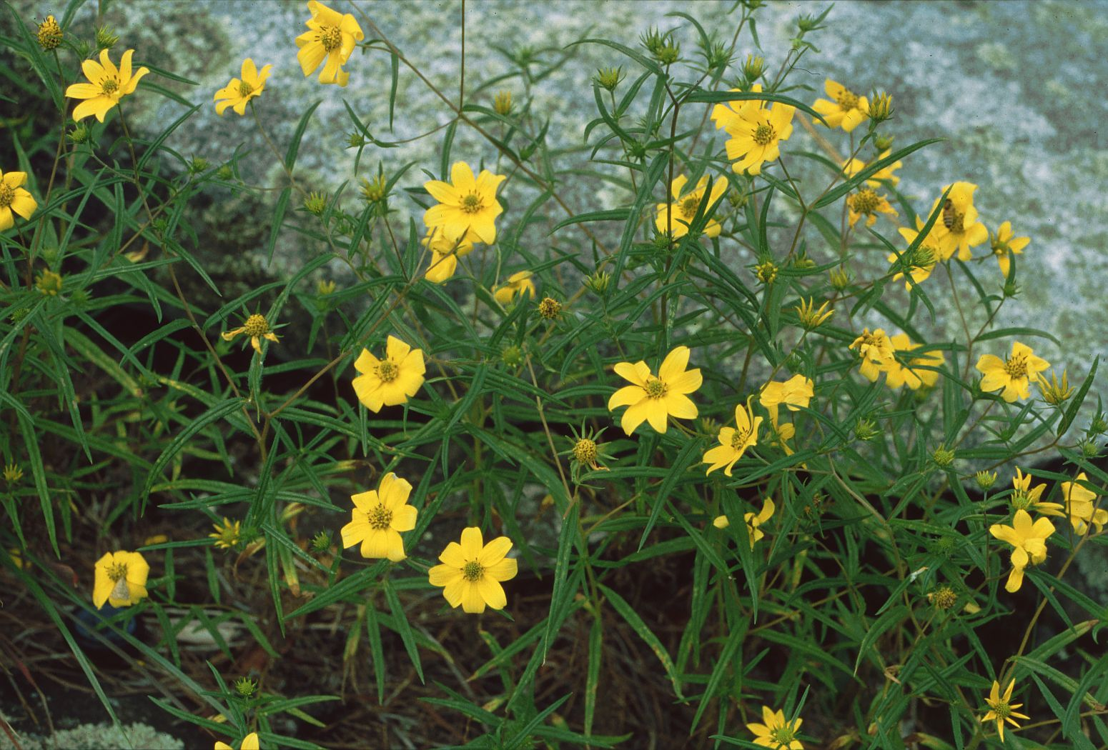 Helianthus porteri, Korbblütler (Asteraceae) – USA, Georgia: Stone Mountain ENE Atlanta (DeKalb County)